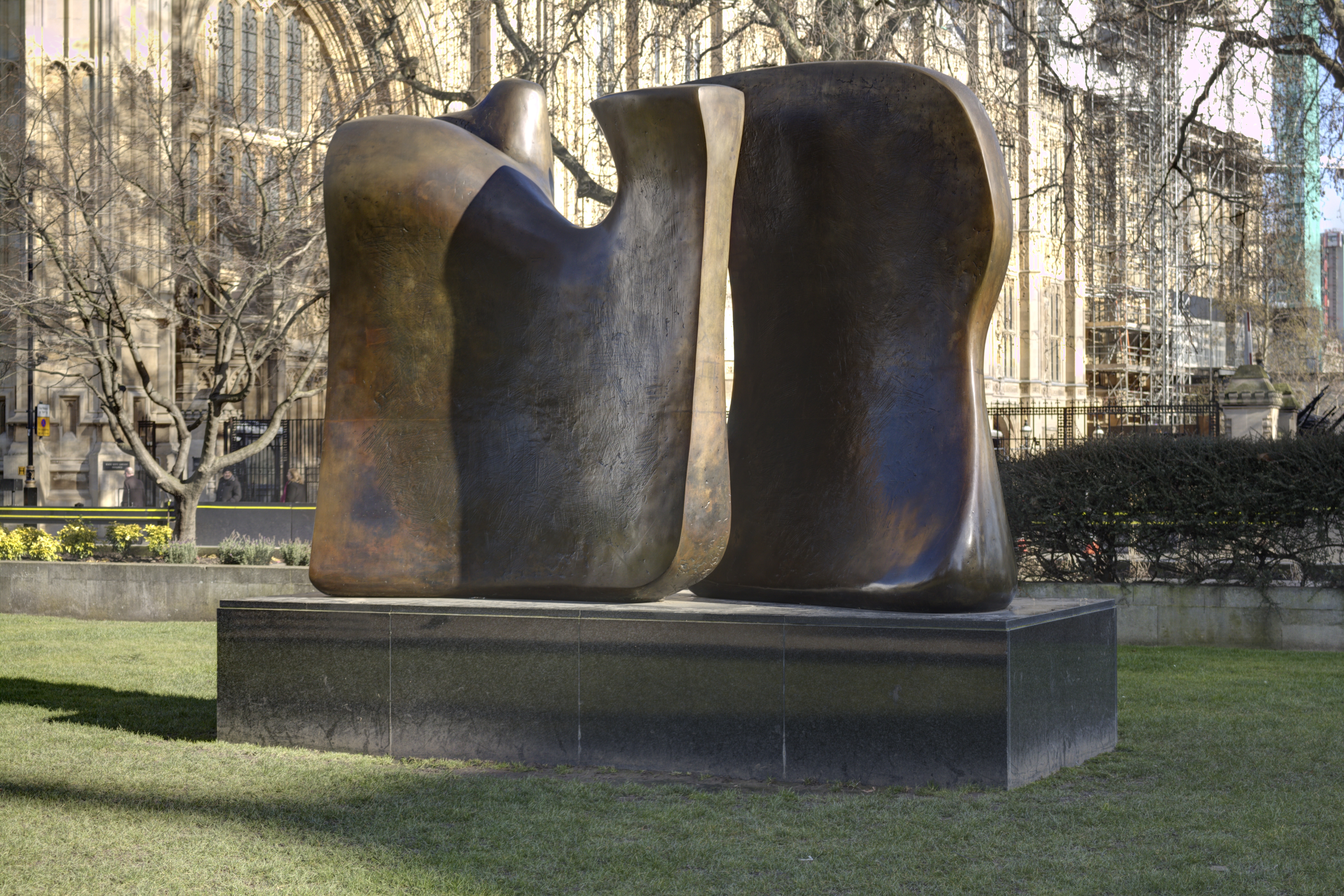 Knife Edge Two Piece - Henry Moore (LH 516, College Green, London)